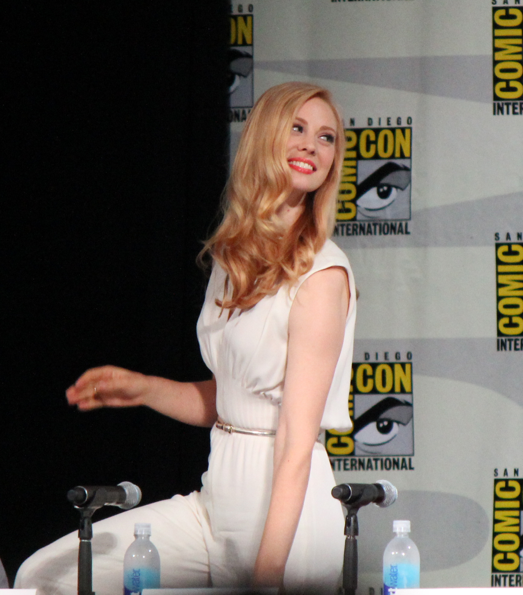 Deborah Ann Woll at the True Blood panel at the 2014 Comic-Con convention in San Diego, California.